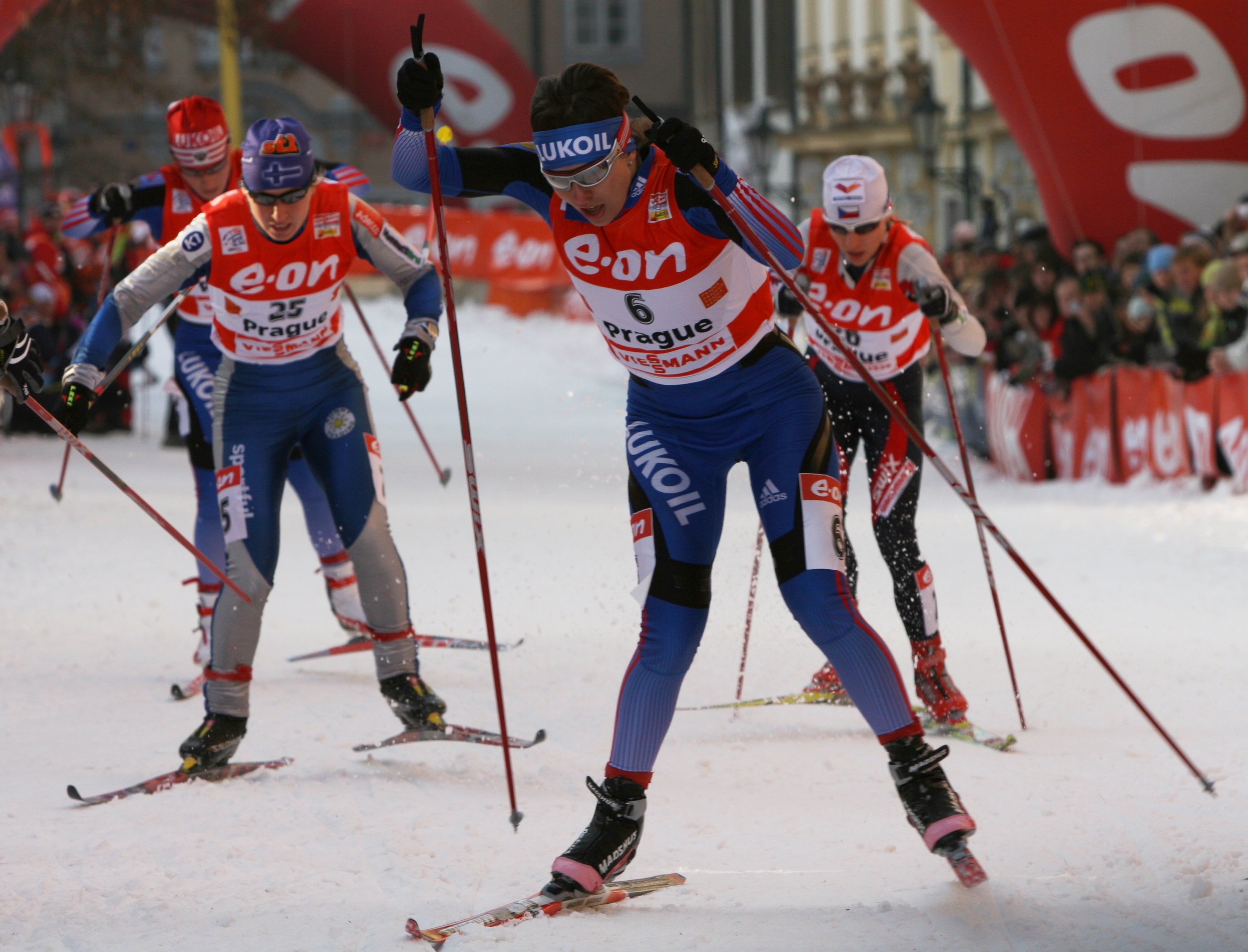 Natalya Korostelyova in the quaterfinals of Tour de Ski in Prague